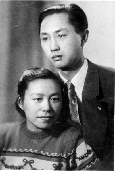 Ye Zhengda and Ren Yue in 1954 in Moscow, the Soviet Union.